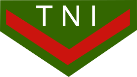 Second Corporal rank insignia that used on daily uniforms of Indonesian Army